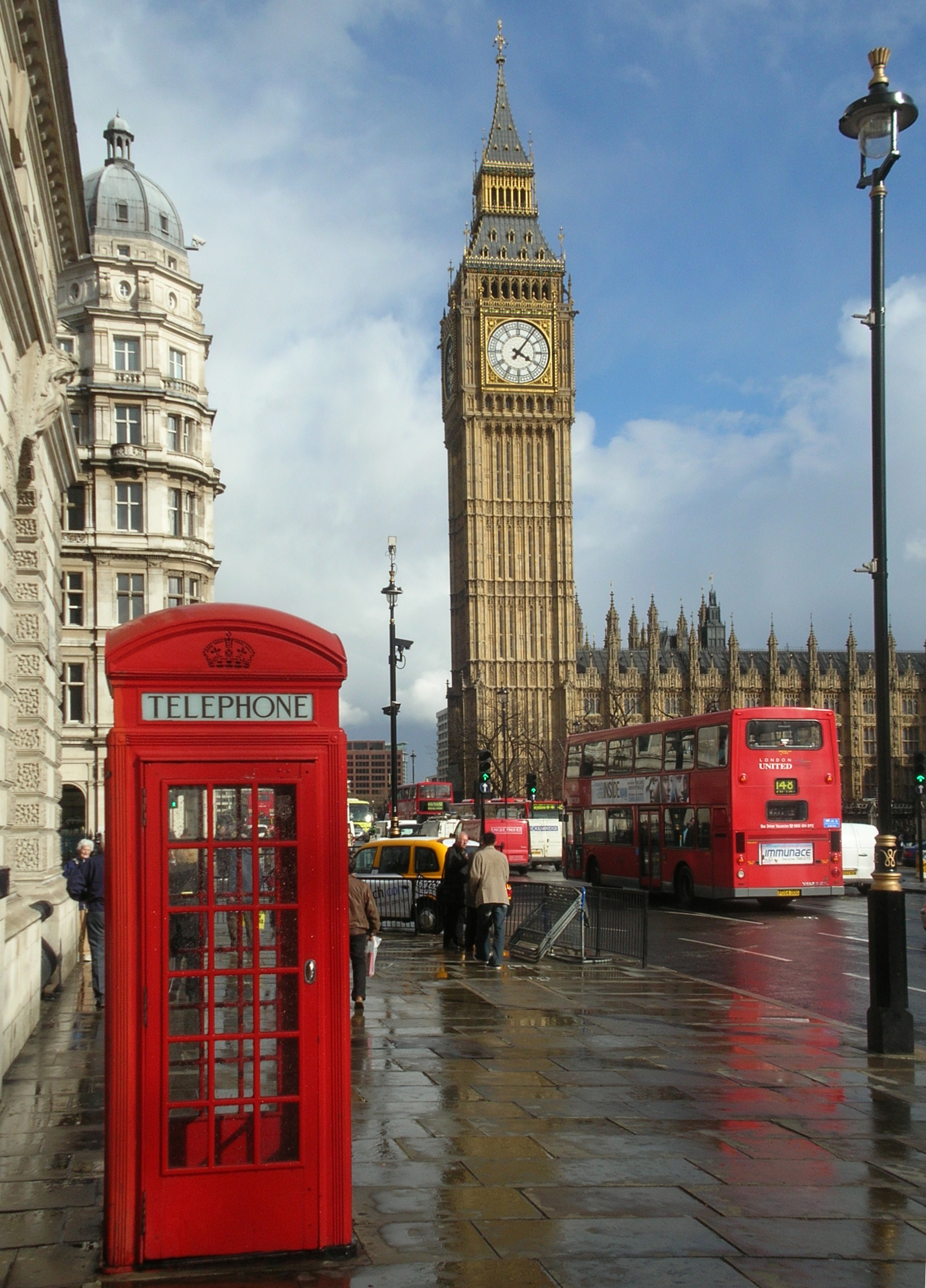 Classic red telephone box and London double-decker bus in front of the Houses of Parliament clocktower. This particular phone box was, however, erected here only in around 1990. The bus is London United VLE45 (reg. PO54 OOG).